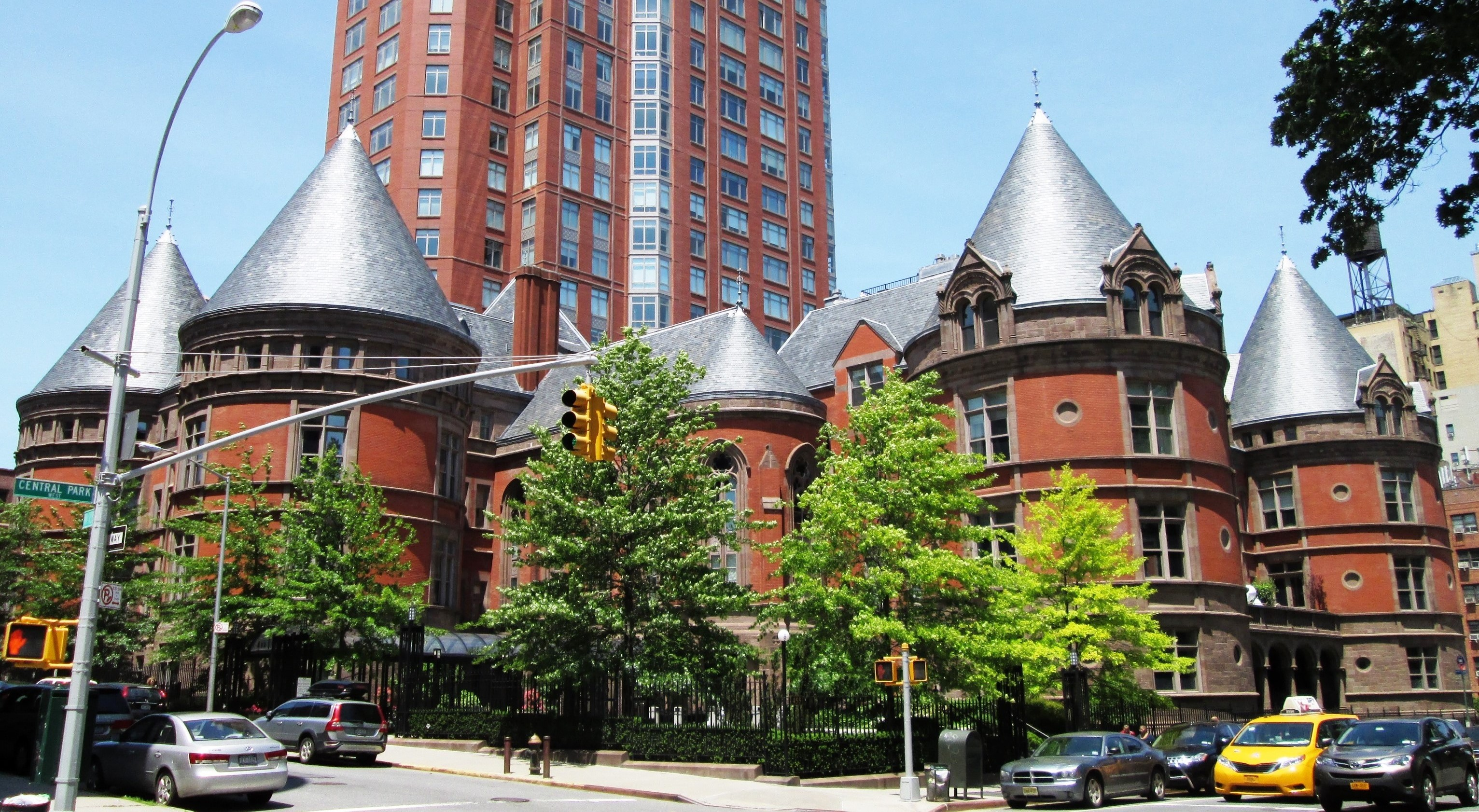 The New York Cancer Hospital in the Upper East Side of Manhattan, New York City was a cancer treatment and research institution founded in 1884. Located at 455 Central Park West between West 105th and 106th Streets, it was built between 1884 to 1886 with additions made between 1889 and 1890, and was designed by Charles Coolidge Haight in the Late Gothic and French Chateau styles – inspired by the chateaux of the Loire Valley. It was the first hospital in the United States dedicated specifically for the treatment of cancer, and the second in the world after the London Cancer Hospital. Around 1955, the hospital became Towers Nursing Home, and the building began its decline. It was designated a New York City landmark in 1976, was added to the National Register of Historic Places in 1977, and was converted into luxury condominium apartments in 2001-05 designed by Perkins Eastman Architects.